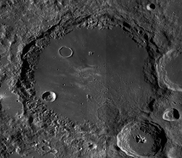 LRO image of Leibnitz crater, on the far side of the moon, mosaic from the Wide Angle Camera (WAC).